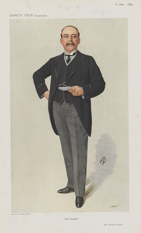 Men of the Day No.1208: Caricature of G Younger MP. Caption reads: "Ayr Burghs"